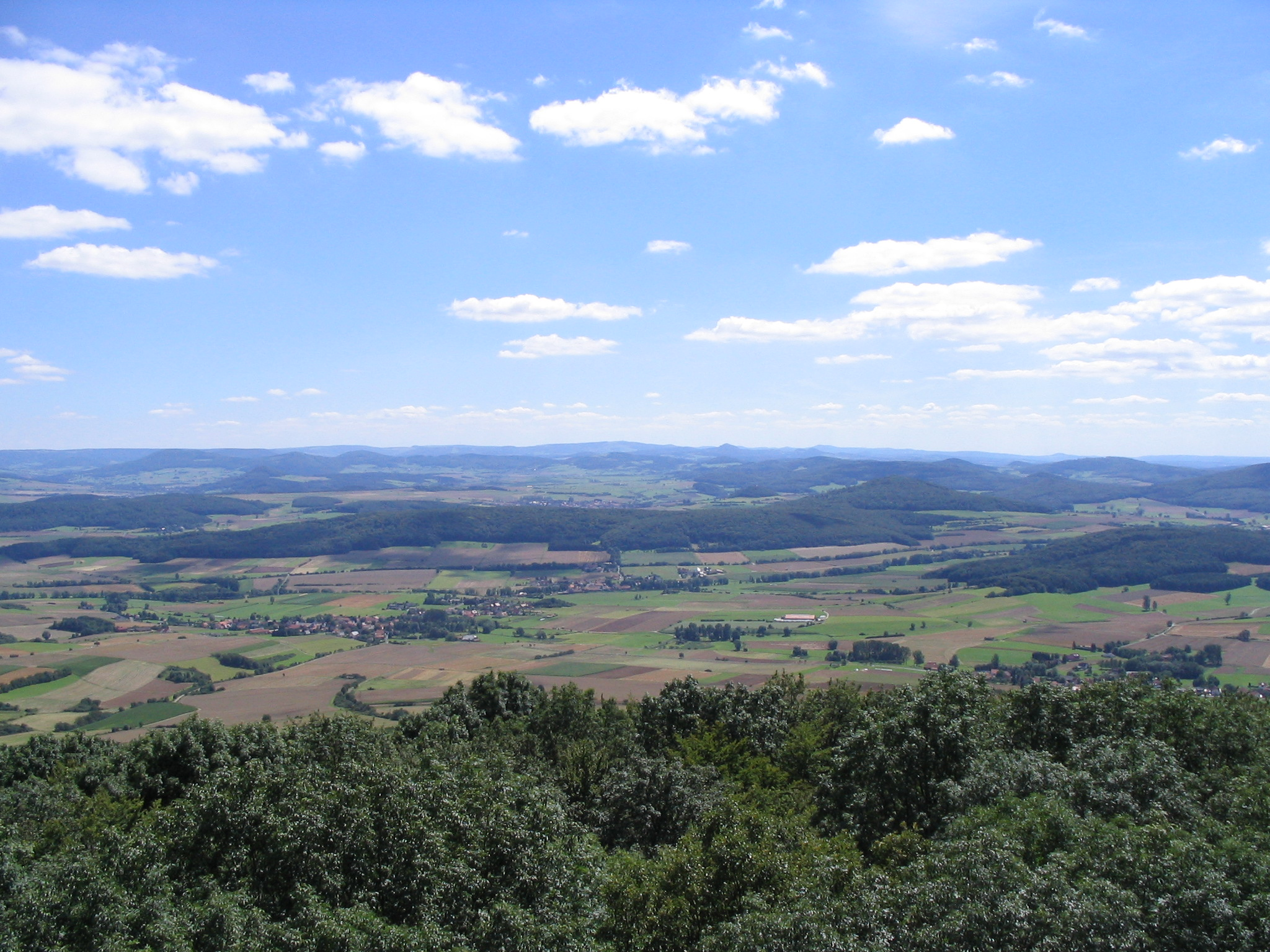 Blick vom Soisberg (630 m) nach Süden in die Rhön. In der Bildmitte die Wasserkuppe (950 m) in 33 km Entfernung.